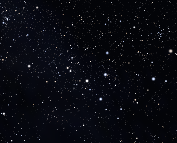 Melotte 186 (taken from Stellarium)